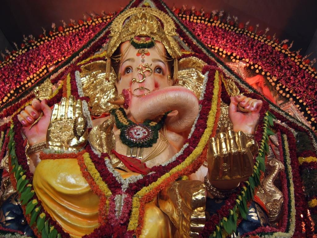 Photograph of Ganesha deity from the Ganesh Chaturthi festival - Mumbai, 2004.